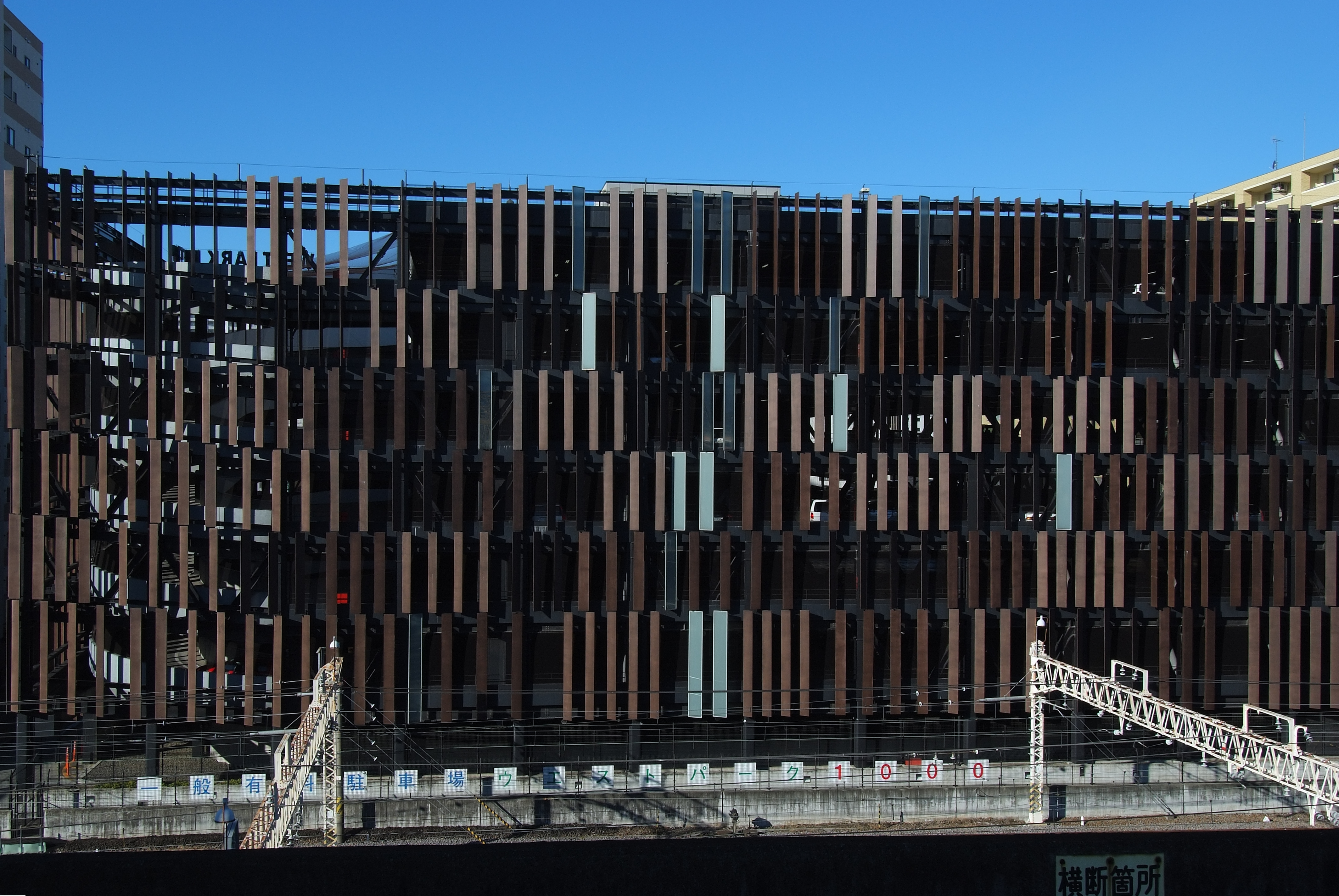 West Park 1000, at Takasaki Gunma Japan, design by Kengo Kuma in 2001.